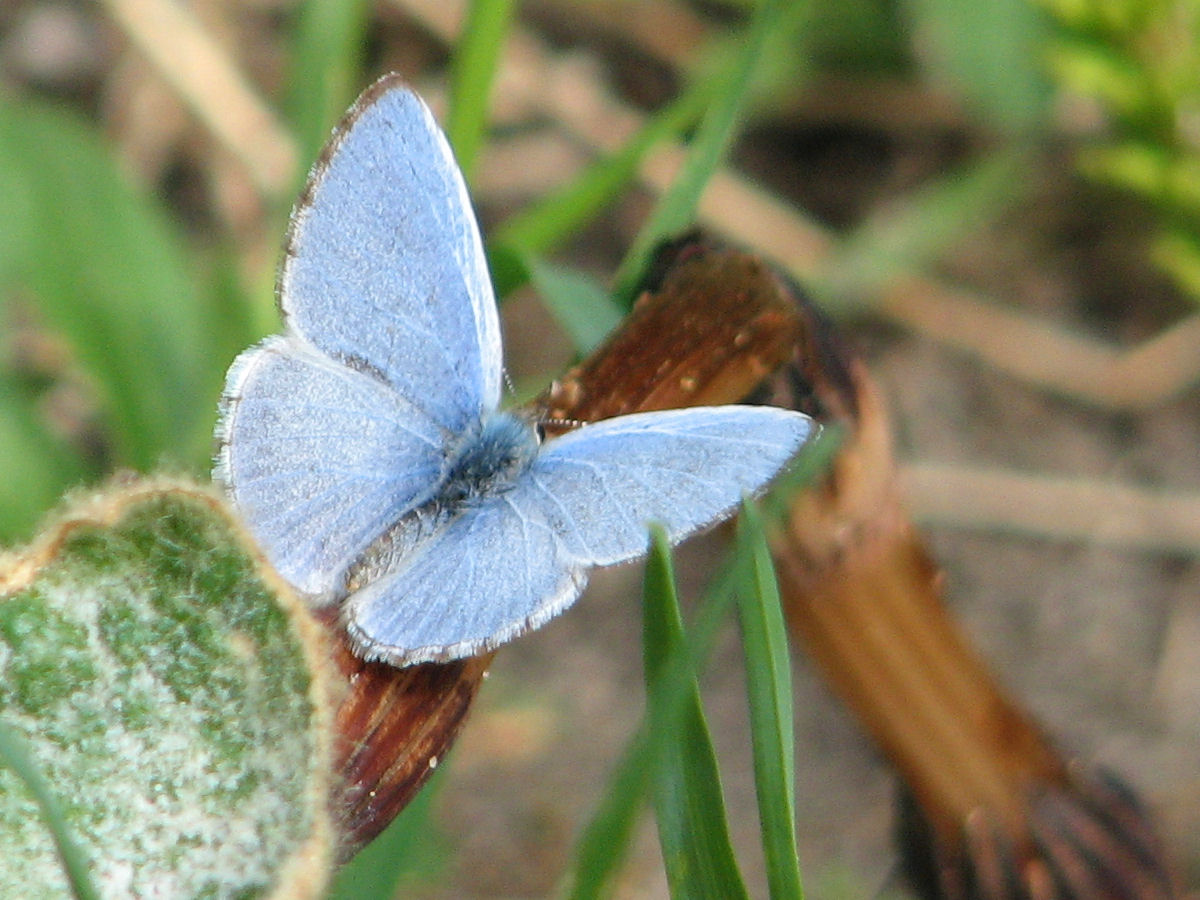 Spring Azure (Celastrina ladon) taken in Mer Bleue Conservation Area, Ottawa, Ontario